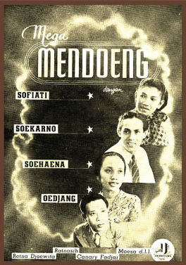 This is a magazine advertisement for the 1942 film Mega Mendoeng.